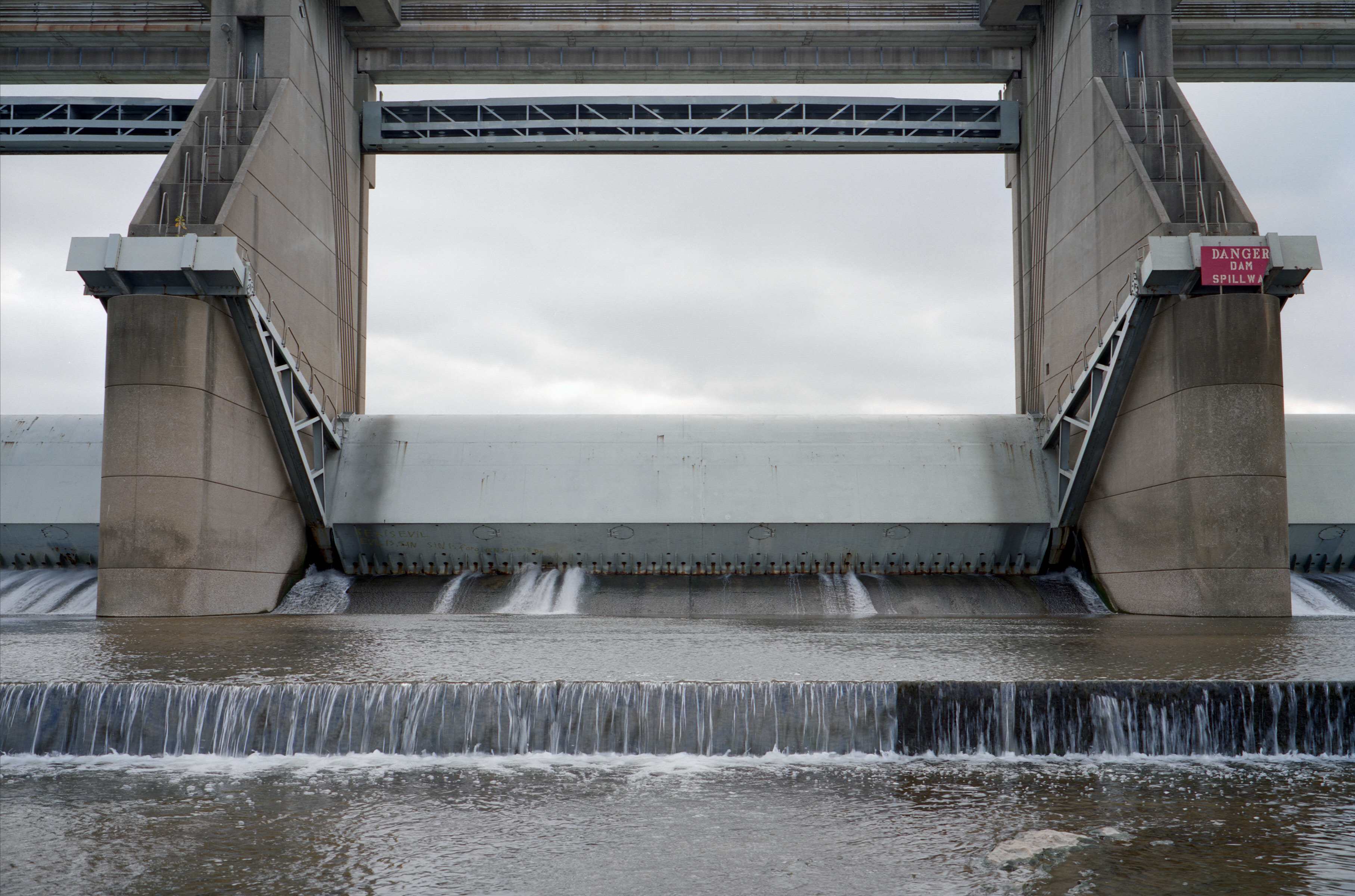 Tainter gate at McAlpine Dam (one of 9 such gates which regulate flow of water through dam), Louisville, Kentucky